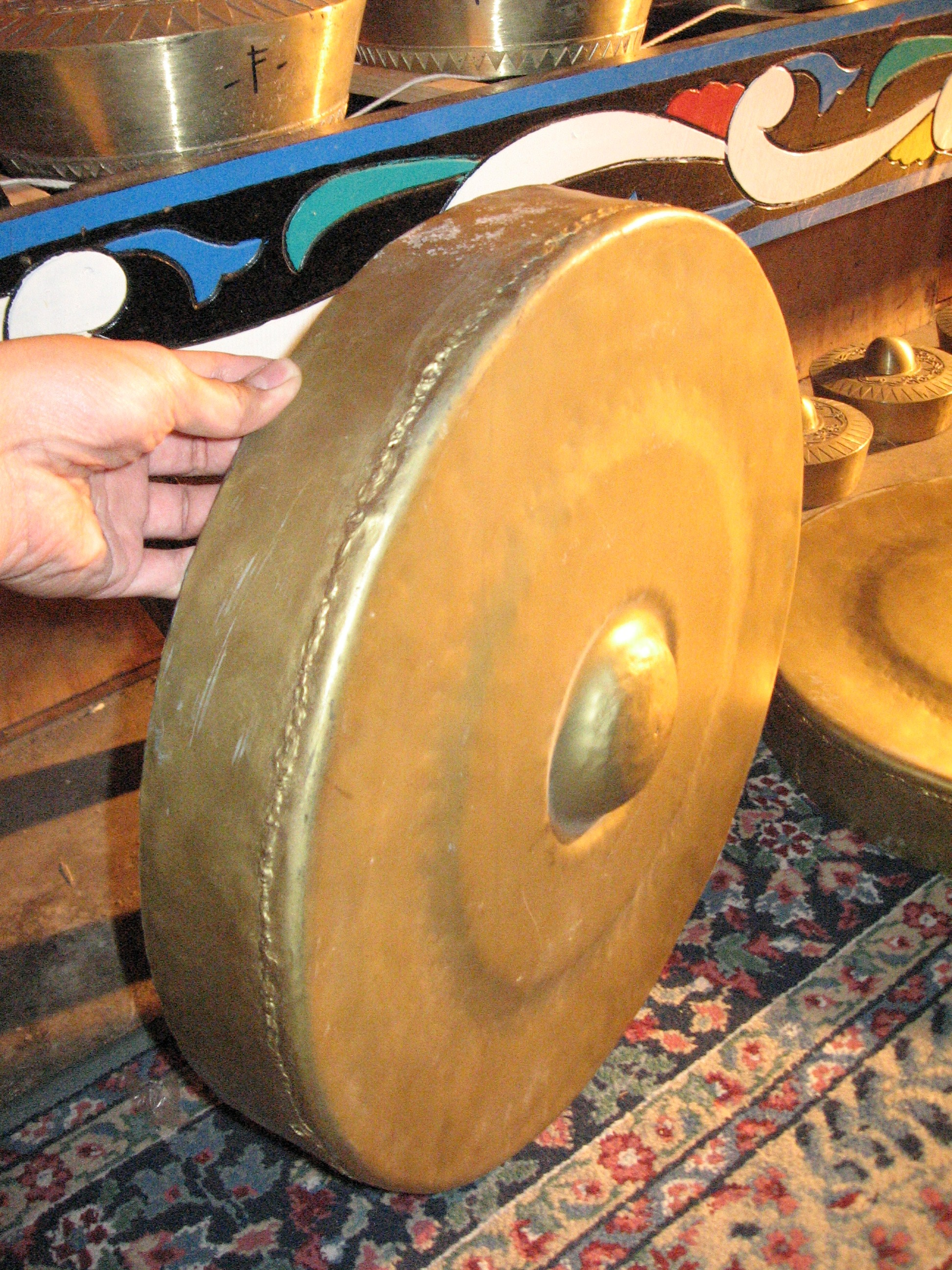 One of the four Philippine vertically hanged gongs known as the gandingan used as a secondary melodic instrument in the kulintang ensemble.